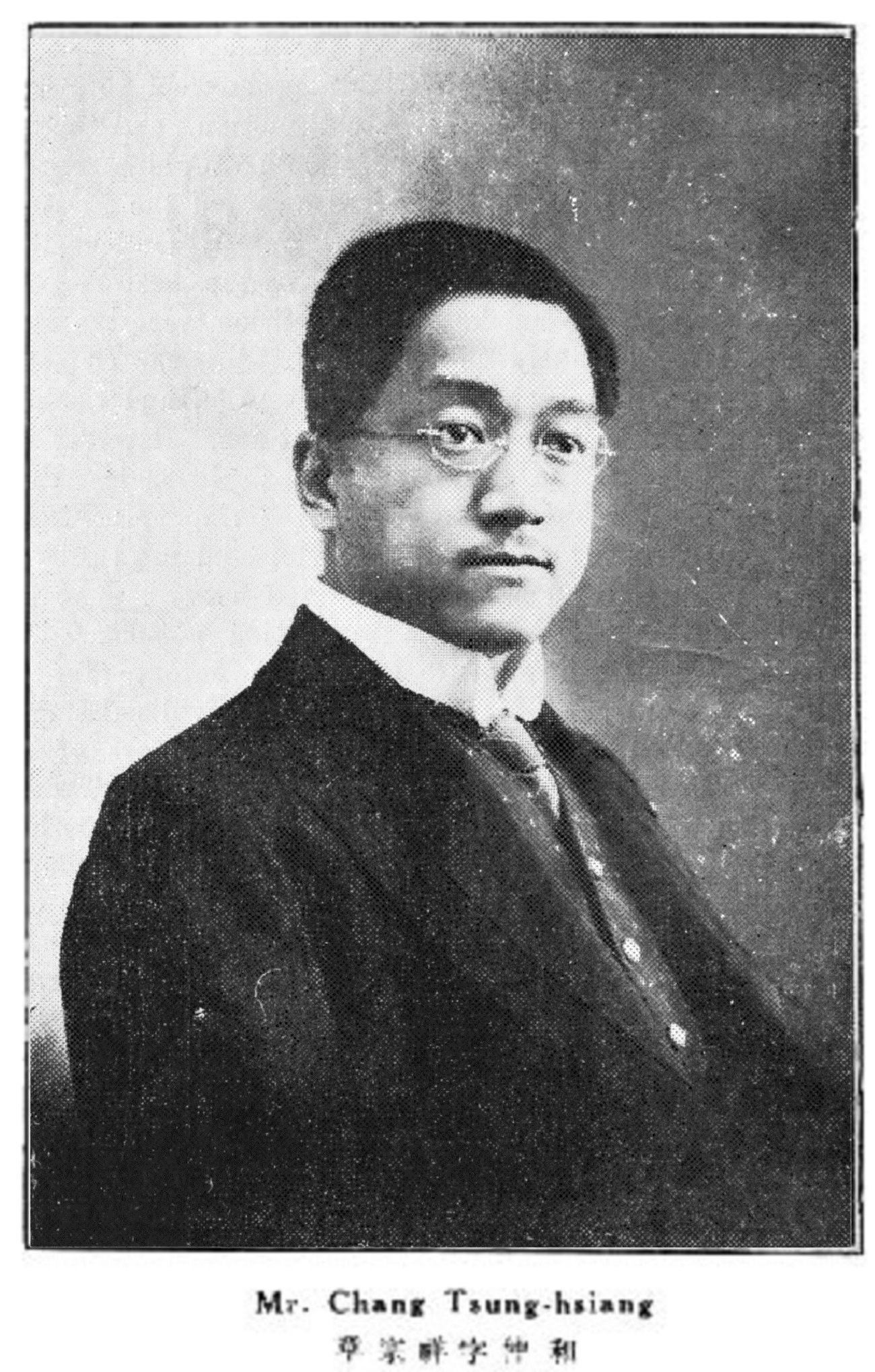 Zhang Zongxiang, Zhonghe (1879 - 1962)